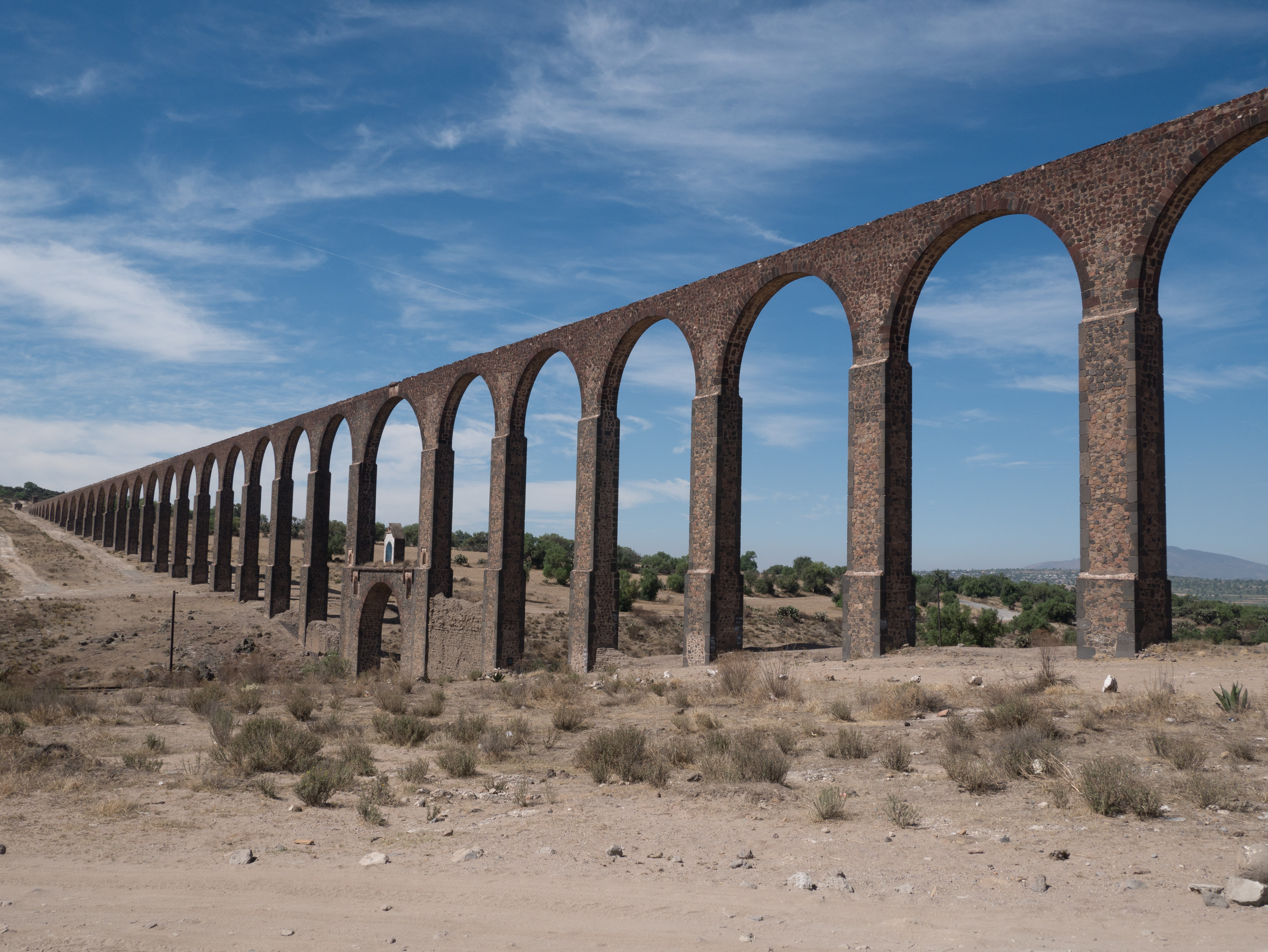 Started by Padre Tembleque in 1553, finished 17 years later the aqueduct was the tallest in the world since Roman times. This arcade (segment) has 67 arches, is 127 feet high at the ravine, nearly half a mile long